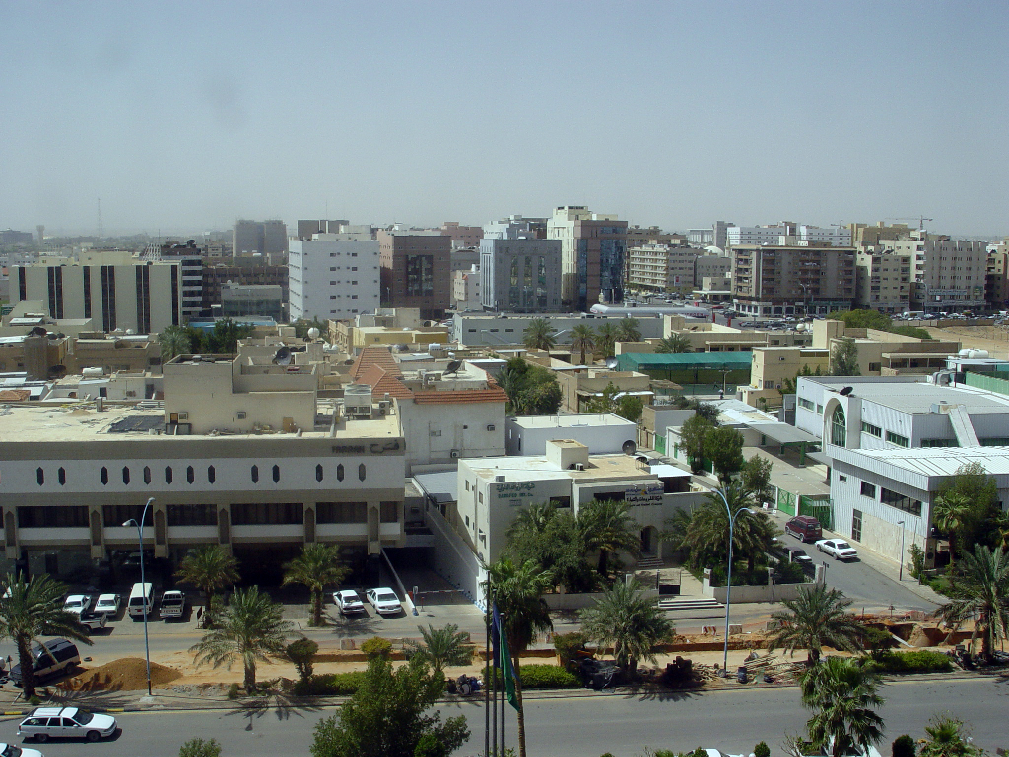 Riyadh's View